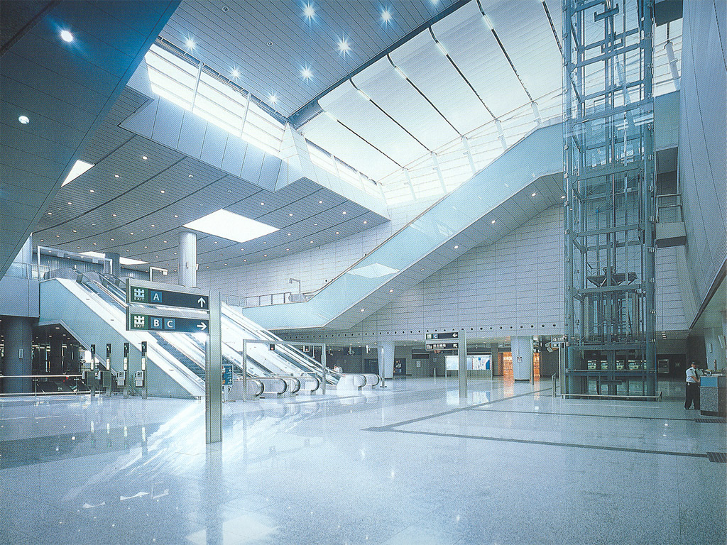 NEW STATIONS GEORGIA 2006 TBILISI STARTED NEW PROJECT- FINISHING IN 2009 more pics at railway.ge georgian version has pics only